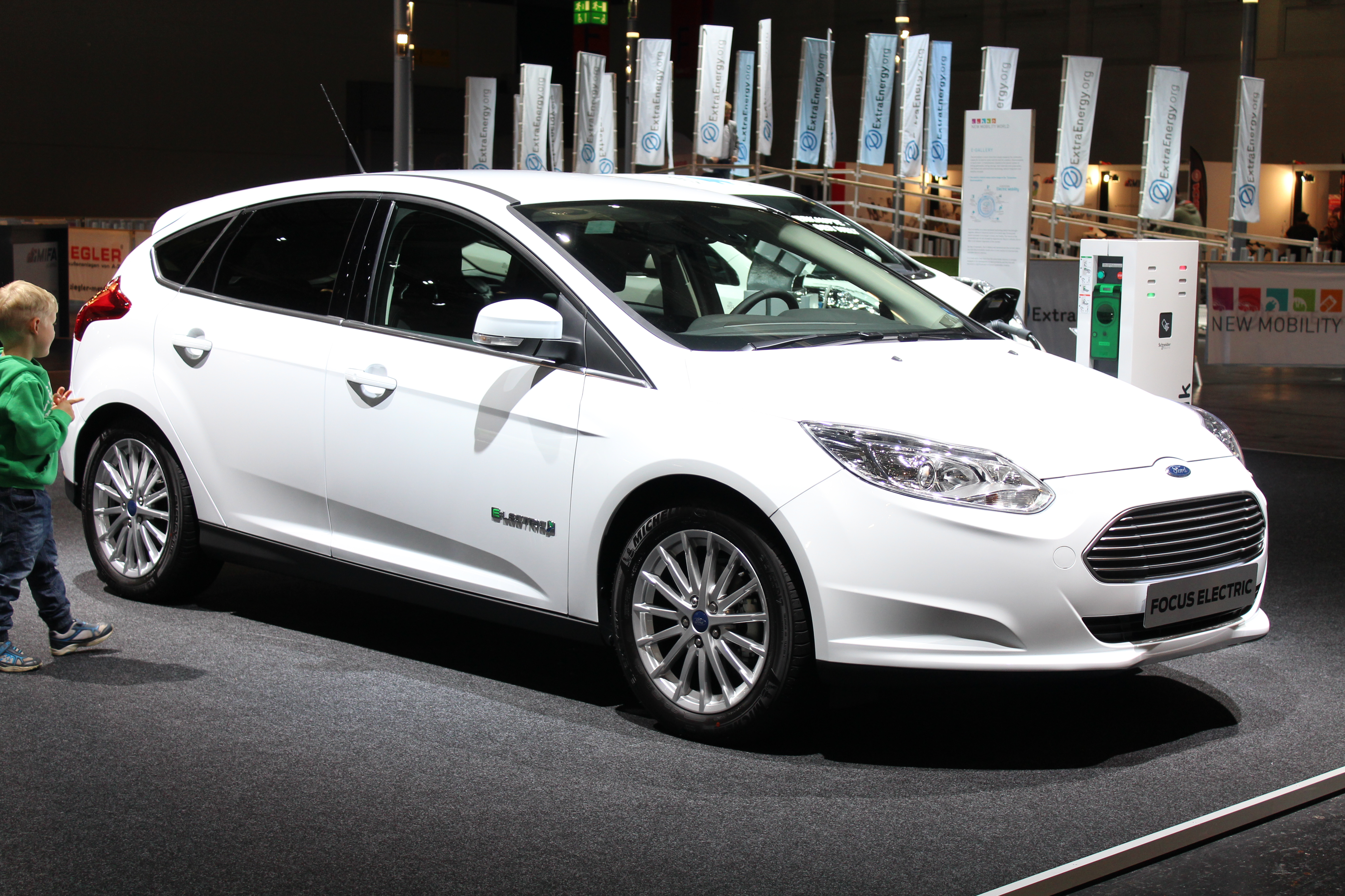 Passenger vehicles being displayed in 2015 International Motor Show Germany.